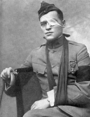 War corrispondant Floyd Gibbons seated